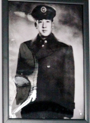 Republic of China Chinese muslim General Ma Jiyuan. Was a member of the Kuomintang.